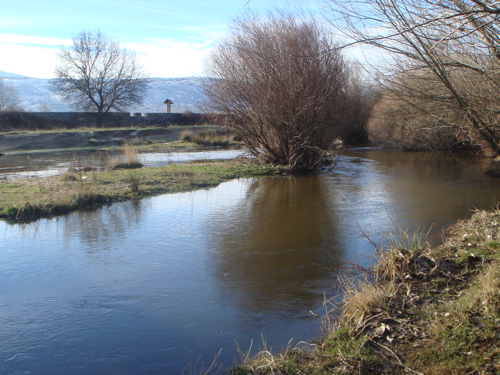 Adaja river near Cobos bridge, Amblés valley, Ávila province, Spain.